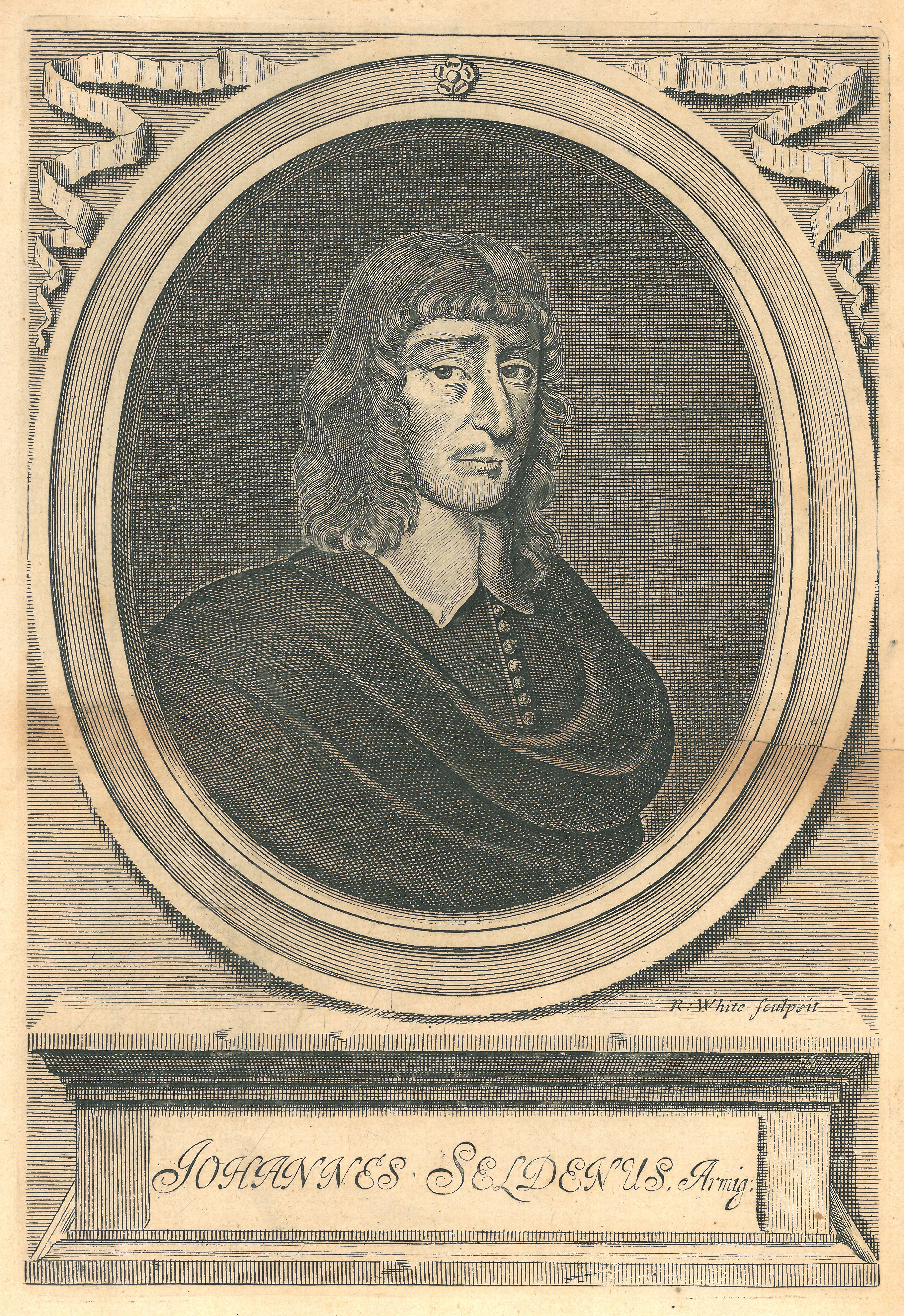 An engraving of the English jurist John Selden (16 December 1584 – 30 November 1654).